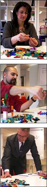 Lego Serious Play session.